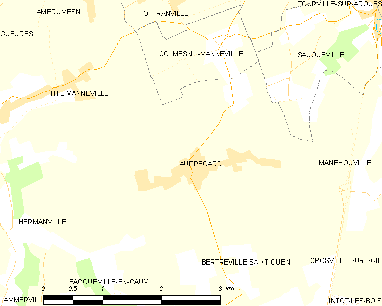 Map of French municipality Auppegard